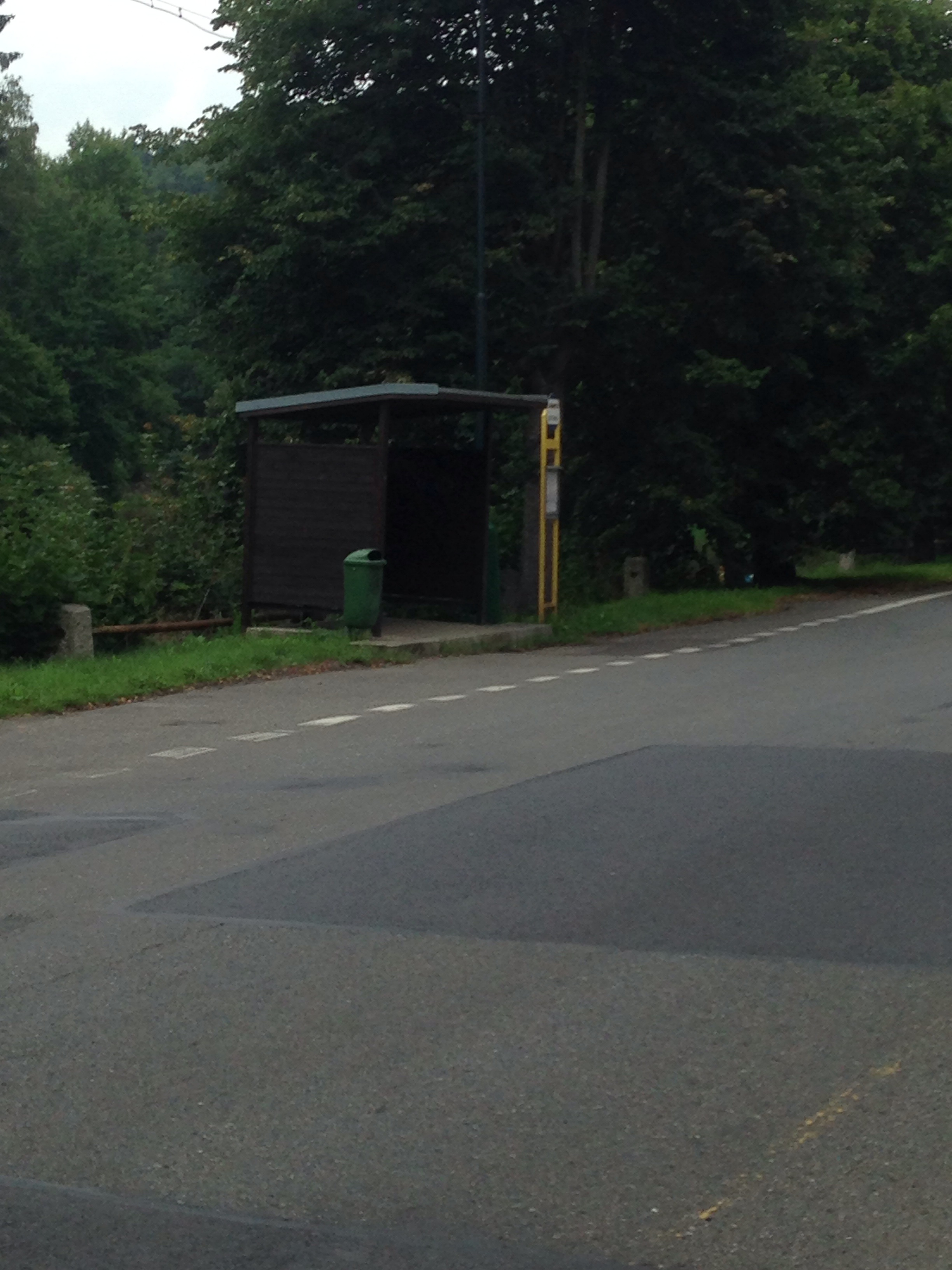 Lázně Kyselka in July 2014 2